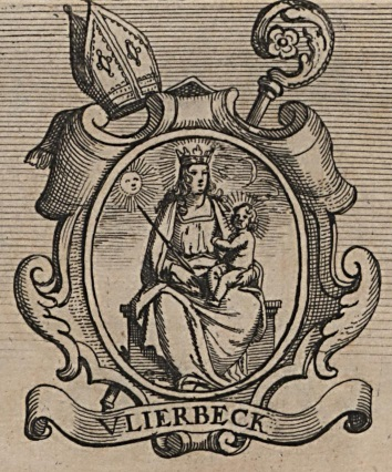 Chorographia sacra Brabantiae